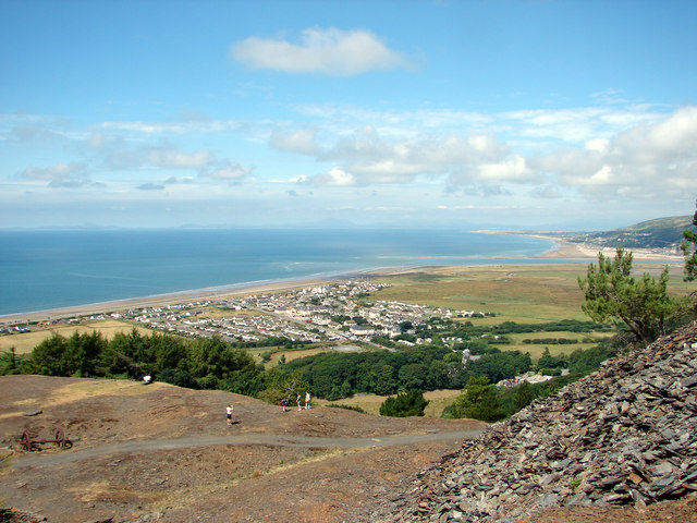 A view of Fairbourne from Golwen slate quarry